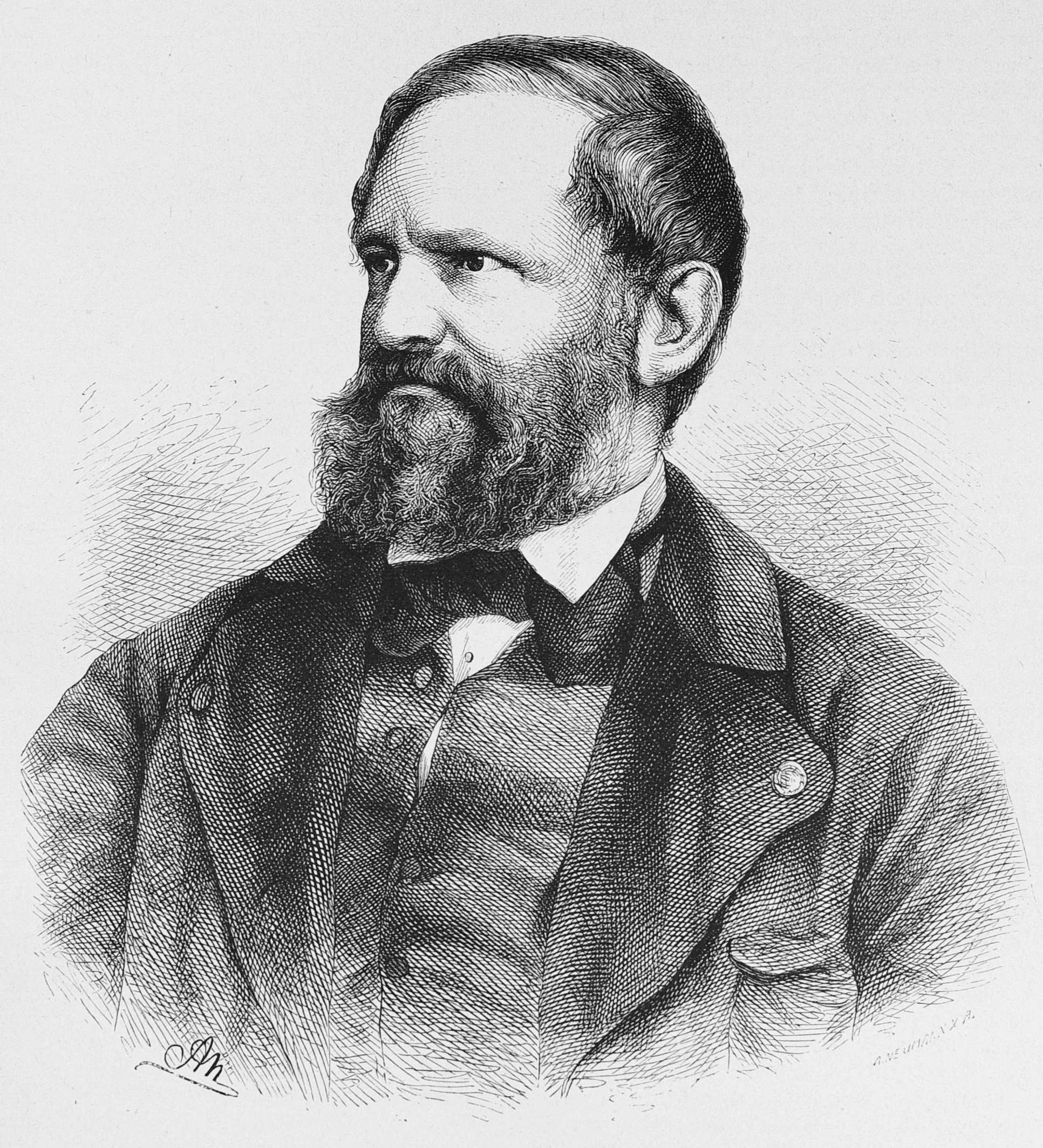 caption: "Franz Wallner. Nach einer Photographie auf Holz gezeichnet von Adolf Neumann."